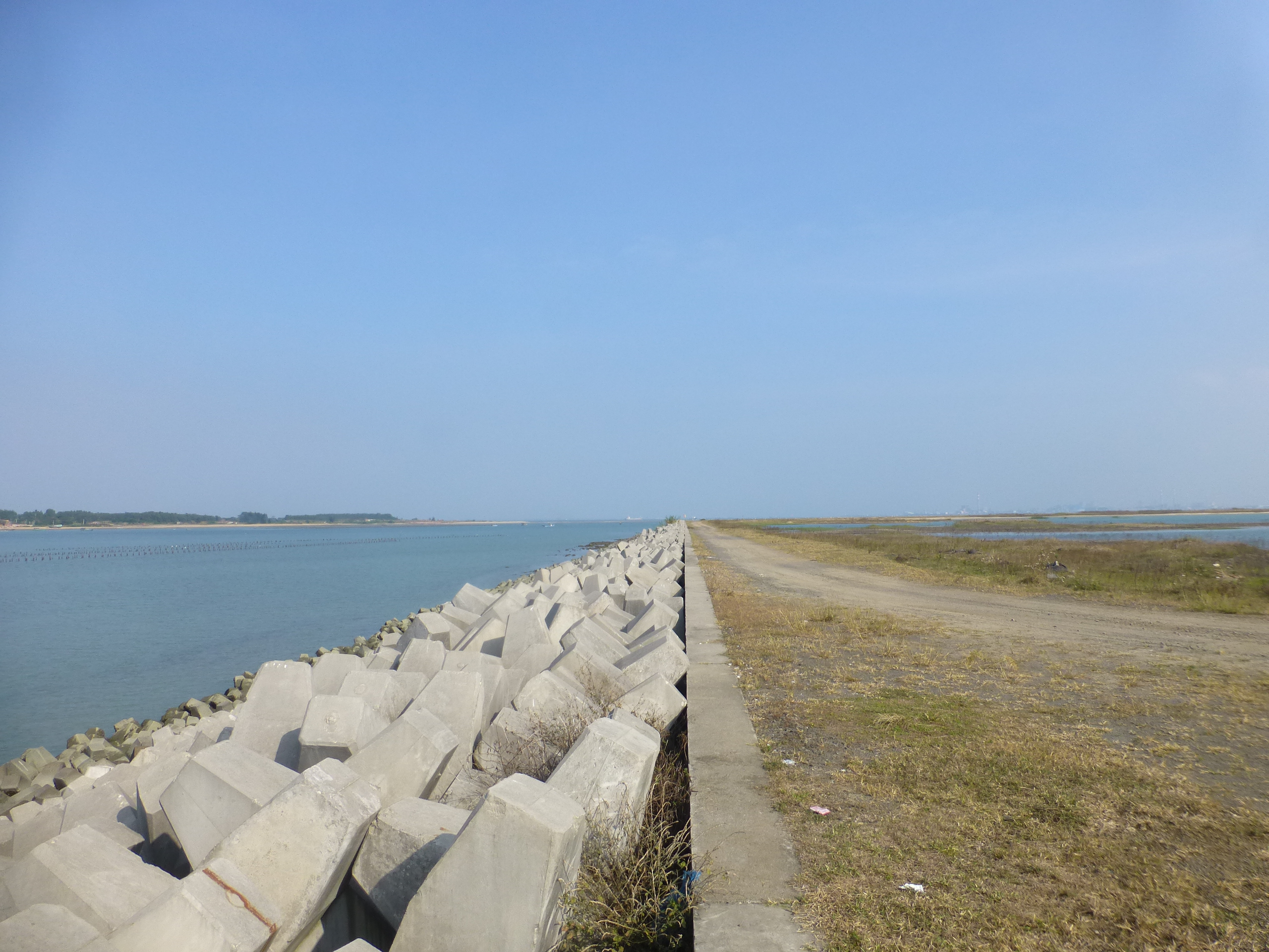 On the dike that runs north from the village of Dongcan on the north shore of Donghai Island, Guangdong. The dike forms the western edge of a newly reclaimed area along the north shore of the island. One can see the port of Zhanjiang far away across the water.